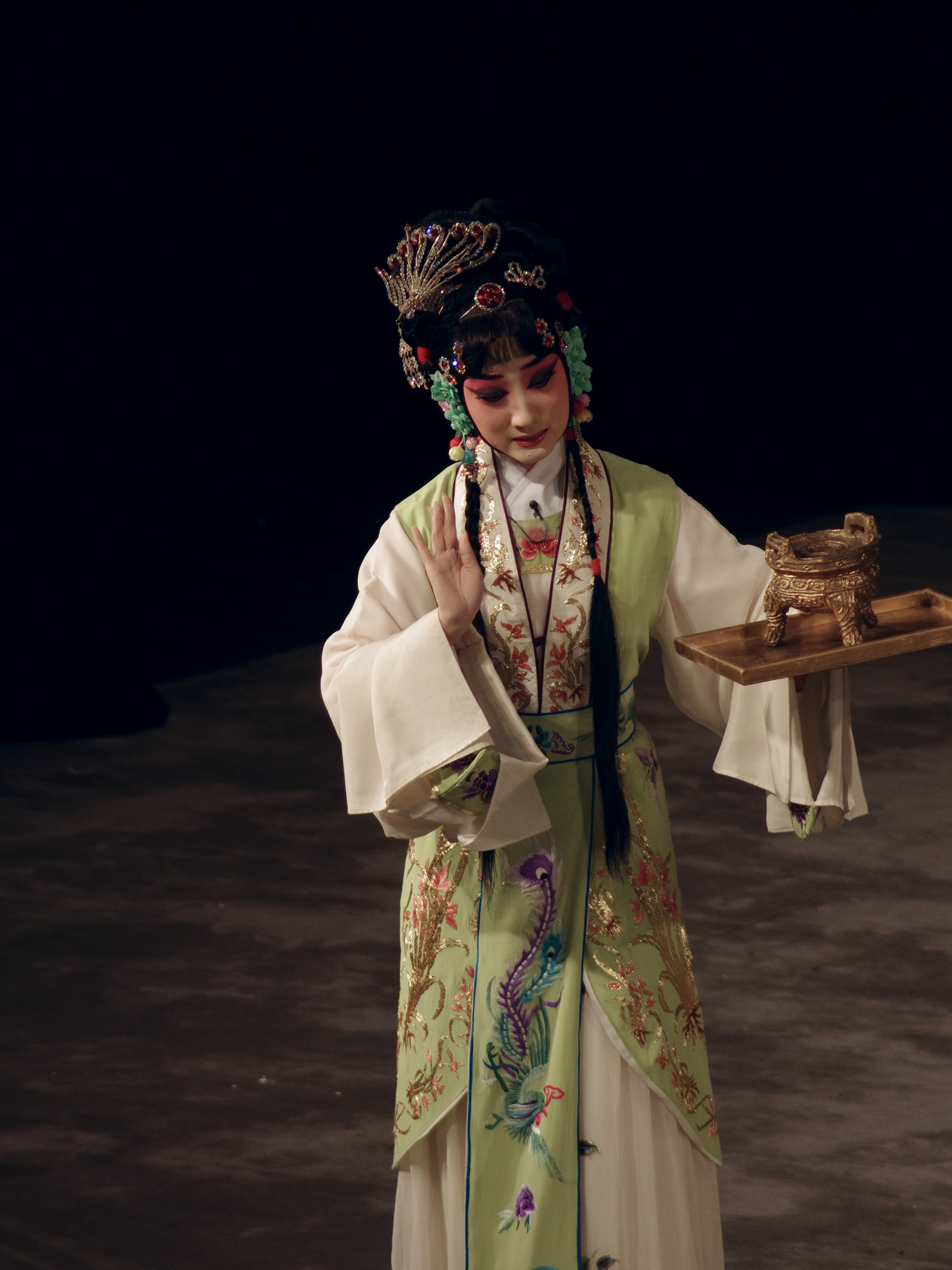 A Peking opera performance in Tianchan Theatre by Shanghai Jingju Theatre Company. Actress Dou Xiaoxuan (窦晓璇) plays Diaochan.